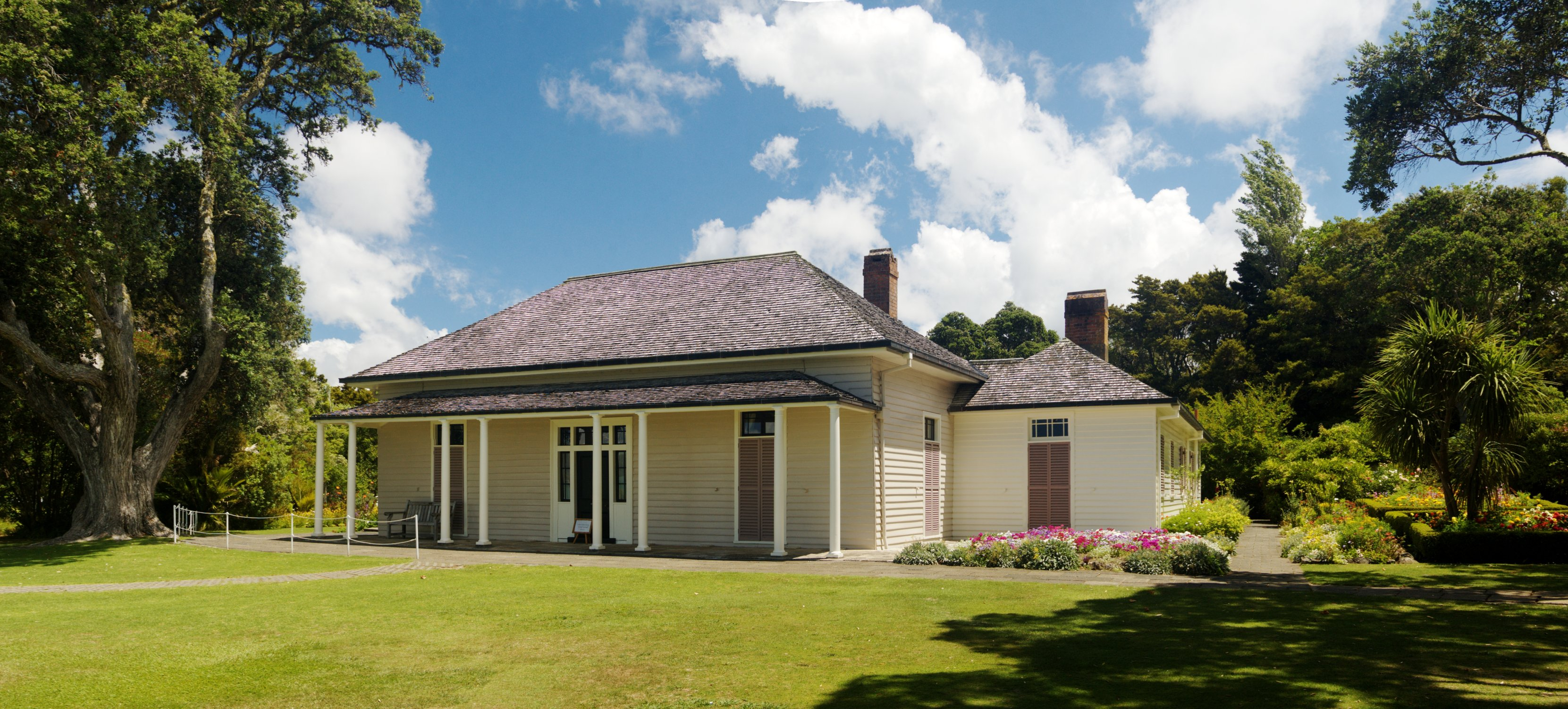 5 segment panorama of James Busby's house in Waitangi, New Zealand. New Zealand Historic Places Trust Register number: 6.